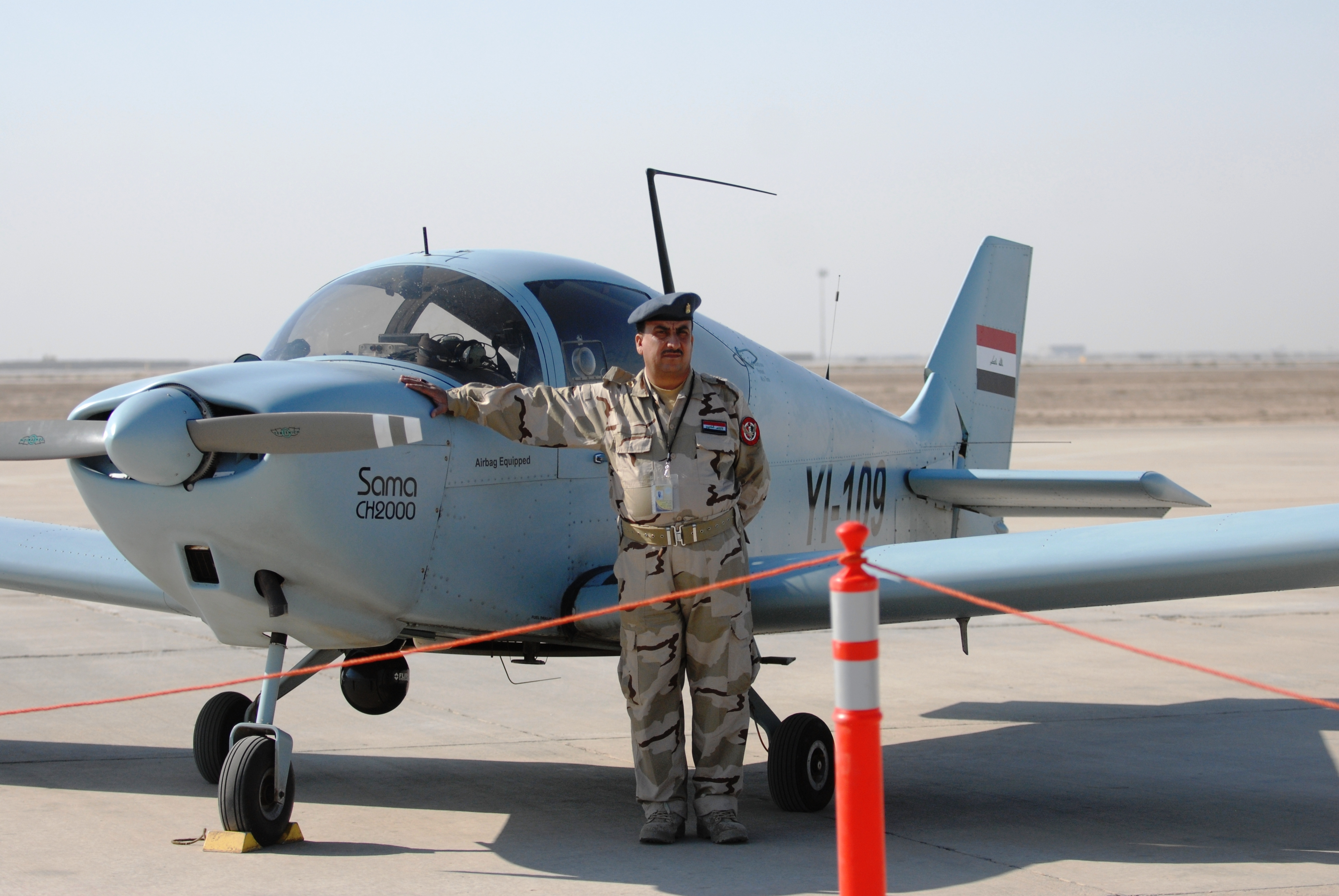 An Iraqi air force pilot shows off a CH2000 reconnaissance plane based at Tallil Air Base. The 70th Iraqi Squadron was activated on the base Nov. 23 and will continue training and conducting operations to support Operation New Dawn.